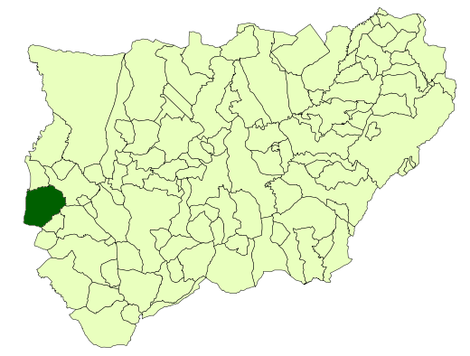 Situation of the municipality of Porcuna (Jaén, Spain).